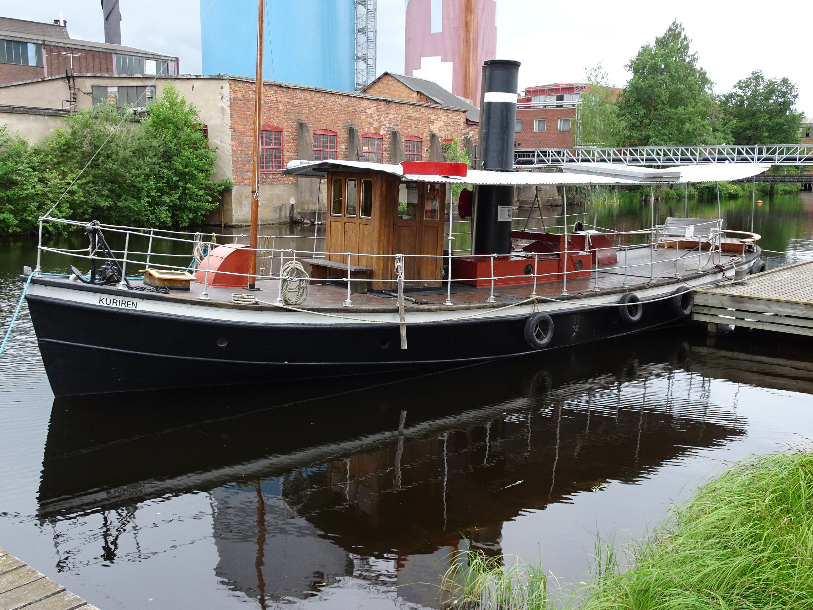 Steam ship S/S Kuriren Smedjebacken Sweden